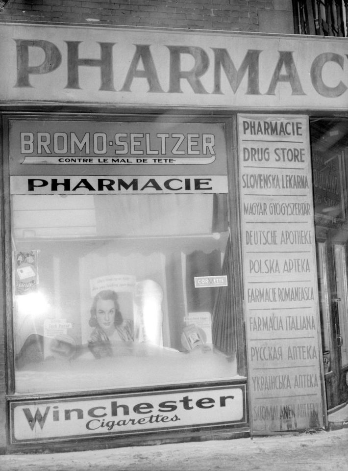 We see the front of S. Boulkind pharmacy located at 1469 St. Laurent Boulevard in Montreal. The window has a Bromo-Seltzer advertising and Winchester cigarettes. A side panel contains the word "pharmacy" in a dozen languages.